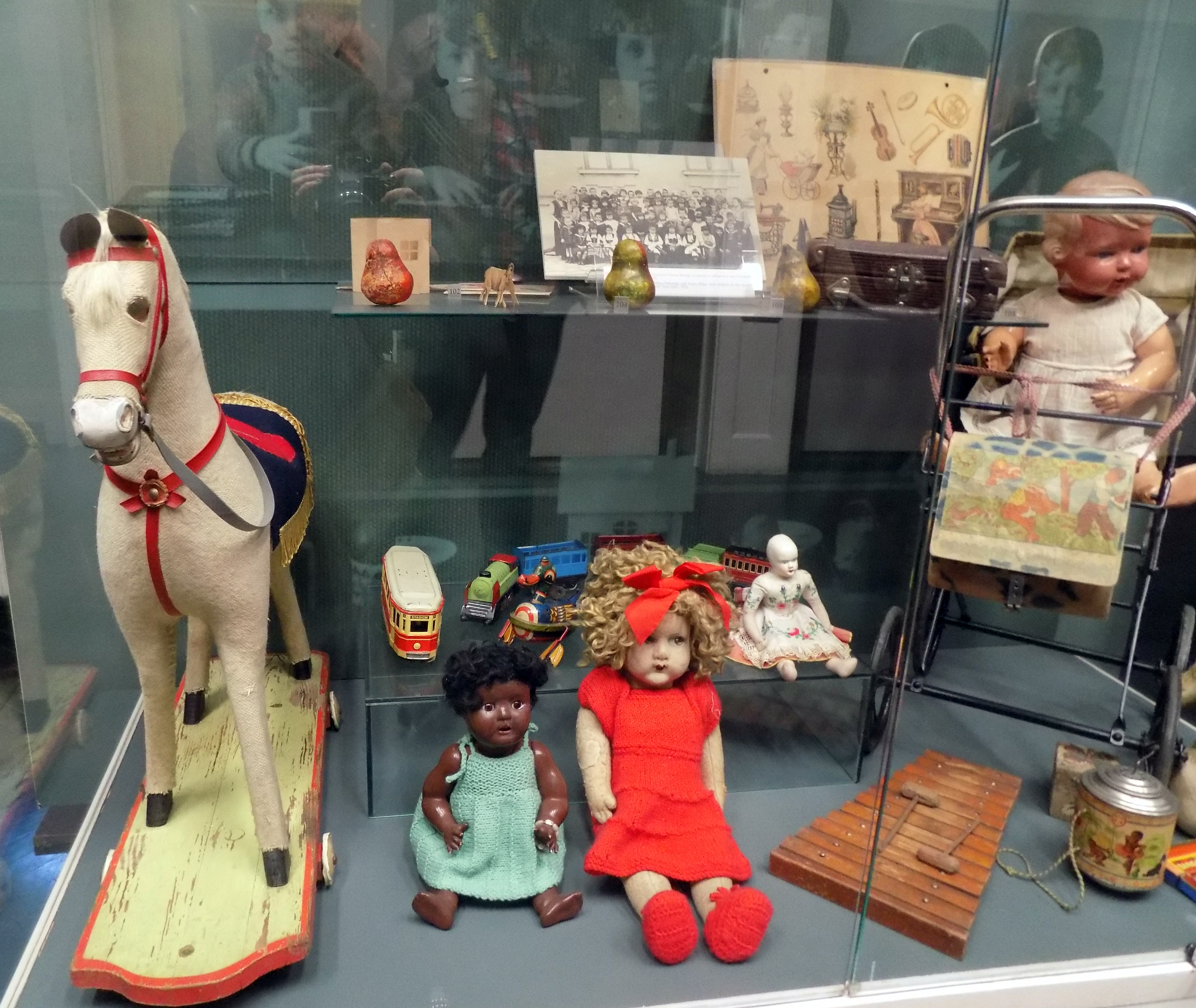 Toys used by children in Serbia in the 19th and early 20th centuries (an exhibit of the Pedagogical Museum in Belgrade)